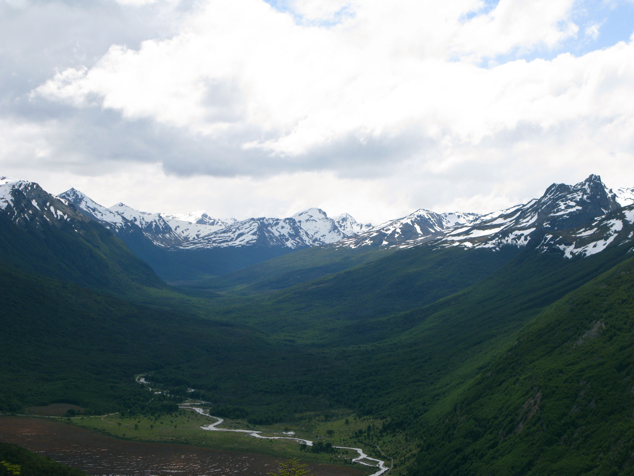 Tierra del Fuego National Park Global View